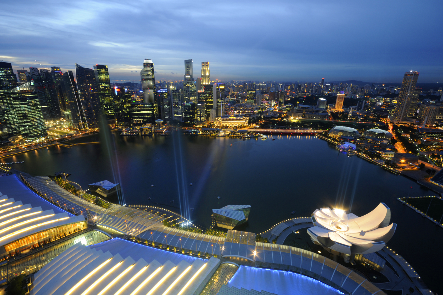 Marina Bay and the skyline of the Central Business District of Singapore at dusk, photographed from the Marina Bay Sands Hotel.